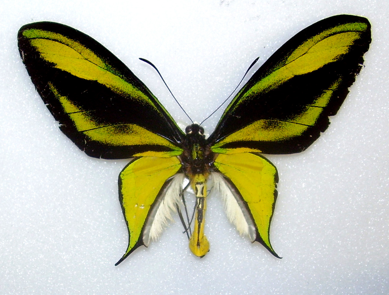 Ornithoptera paradisea Lake Anggi "New Guinea" 16 May 1977